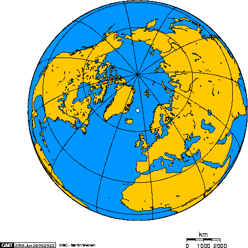 Orthographic projection centred over Jan Mayen